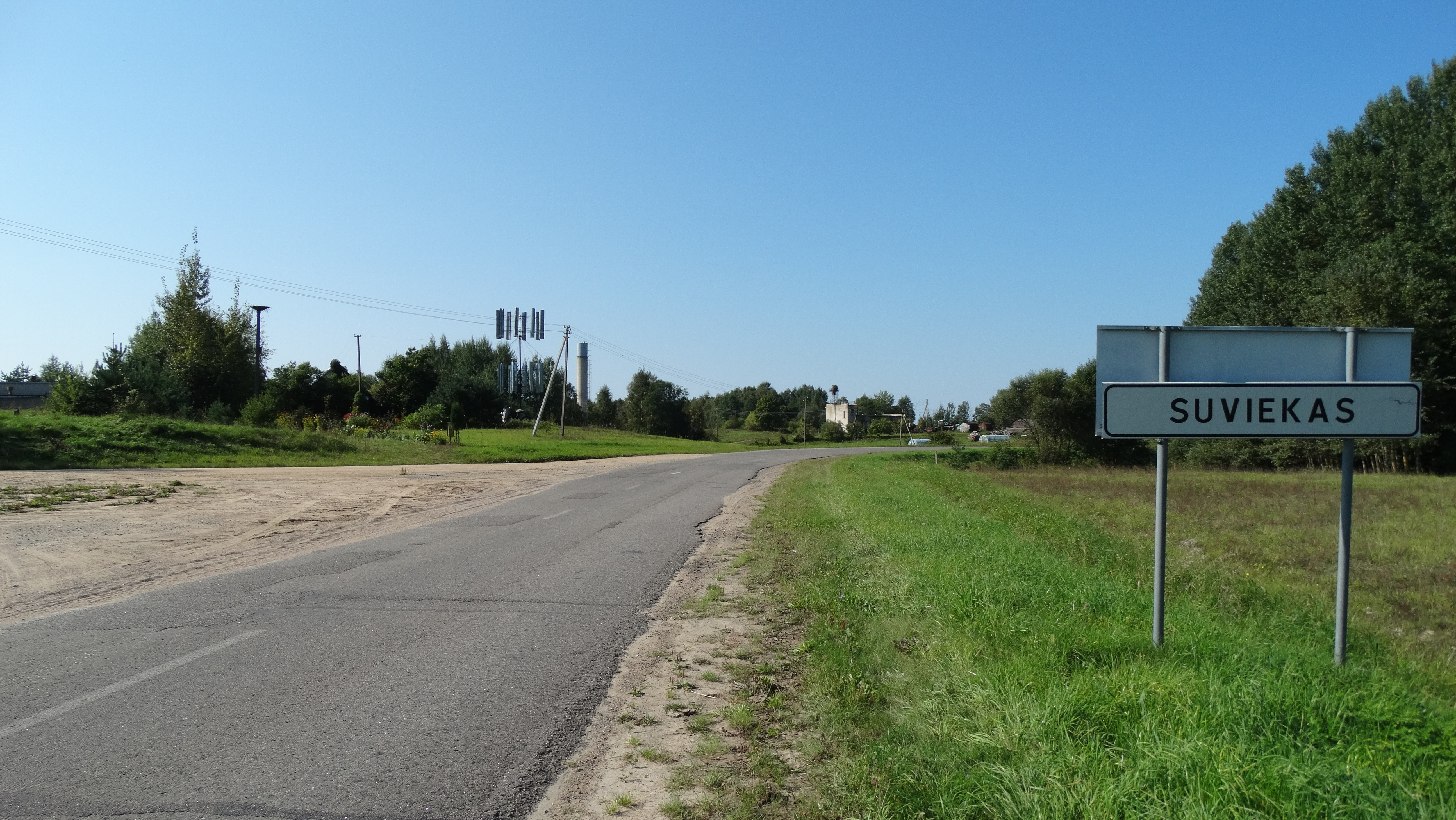 Suviekas, Zarasai District, Lithuania